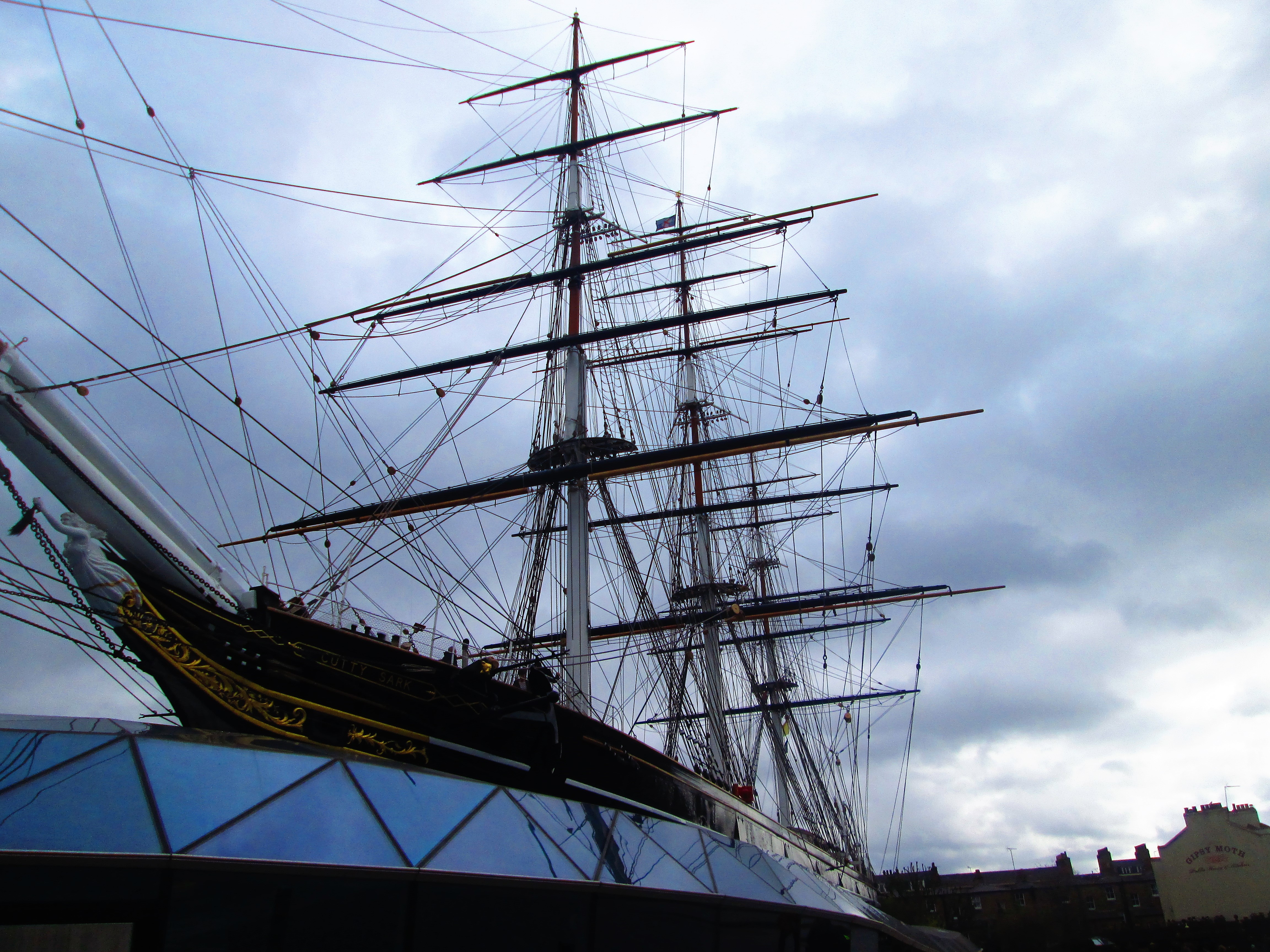 Cutty Sark Wikidata has entry Q171255 with data related to this item.